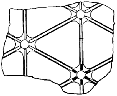 Modified (removed reference numbers) image of isogrid panel from US Patent 4012549